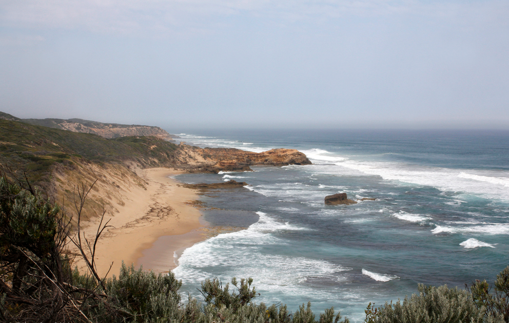 Cheviot Beach on Point Nepean near Portsea. Harold Holt went missing at this beach.